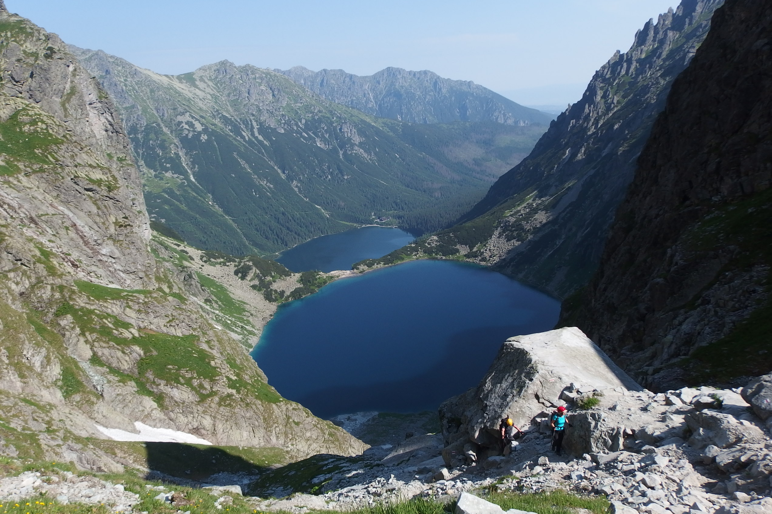 Black Lake below Mount Rysy